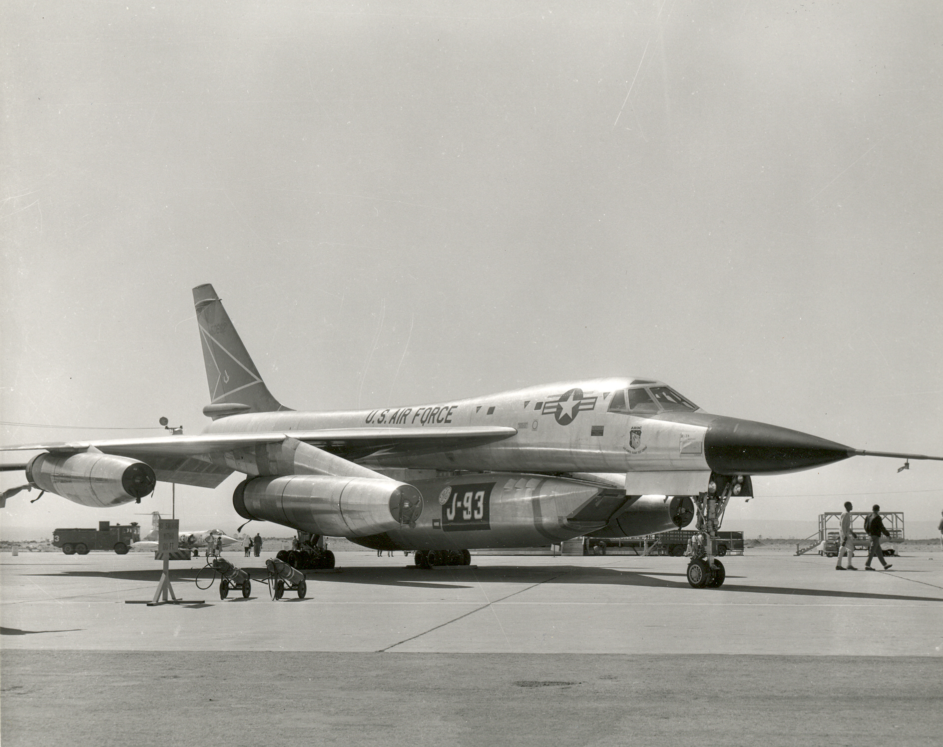 Third B-58 (then still a YB-58) on display at Edwards AFB with GE J93 engine pod.